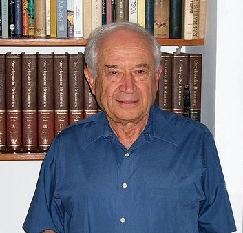 Professor Raphael Mechoulam, biochemist from Israel, born in Sofia